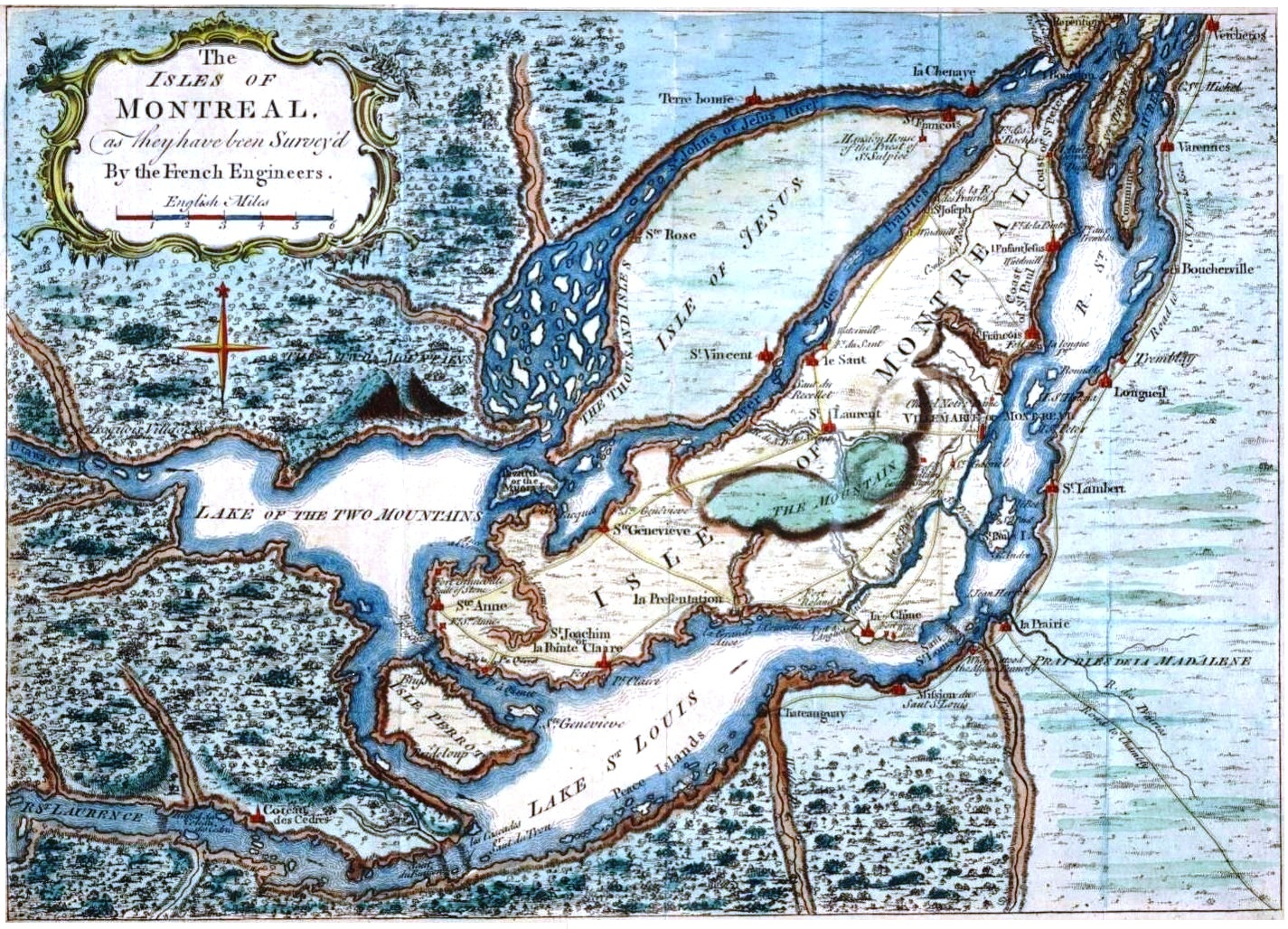 The Isles of Montreal as they have been survey'd by the French engineers